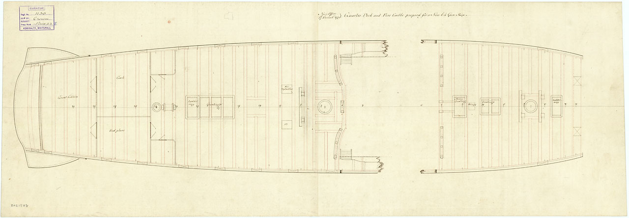 Ardent (1782); Crown (1782); Scipio (1782); Veteran (1787) Scale: 1:48. Plan showing the quarterdeck and forecastle proposed (and used) for the 'New 64 Gun Ship', refering to the Crown Class: Ardent (1782), Crown (1782), Scipio (1782), and Veteran (1787), all 64-gun Third Rate, two-deckers. CROWN 1782